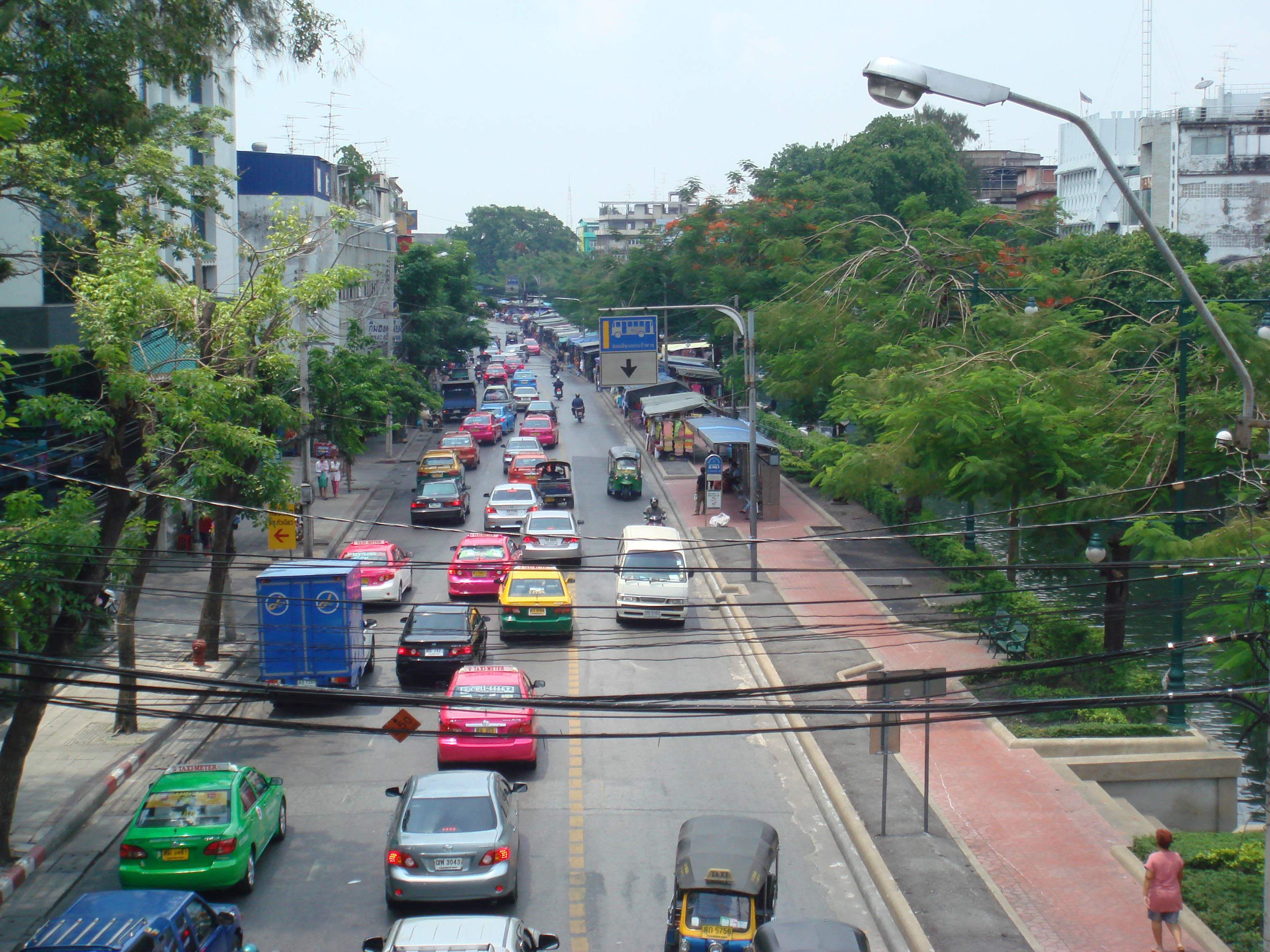 Krungkasem road before reaching Bobae Market down the street